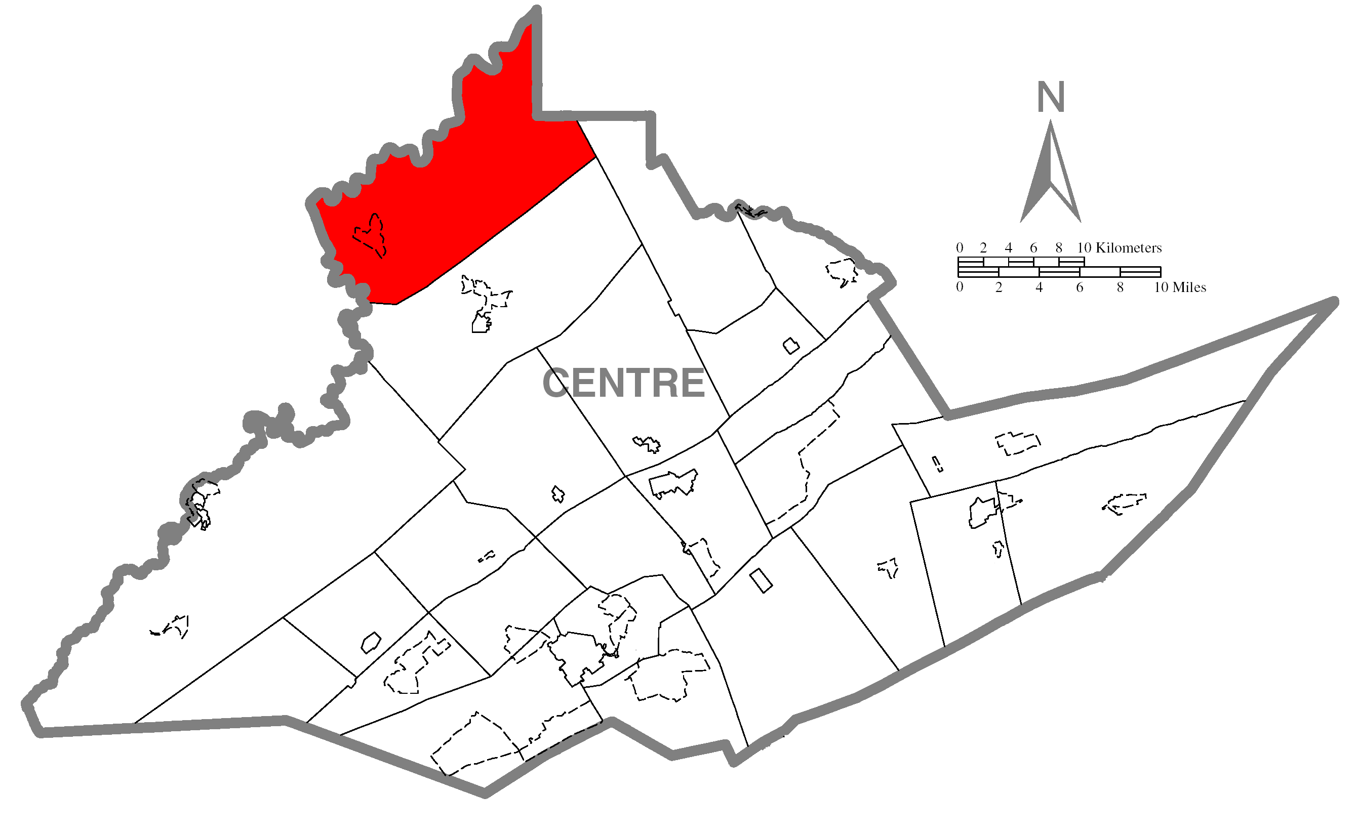 A map of Centre County showing Burnside Township, Pennsylvania (alternate) highlighted on the map.